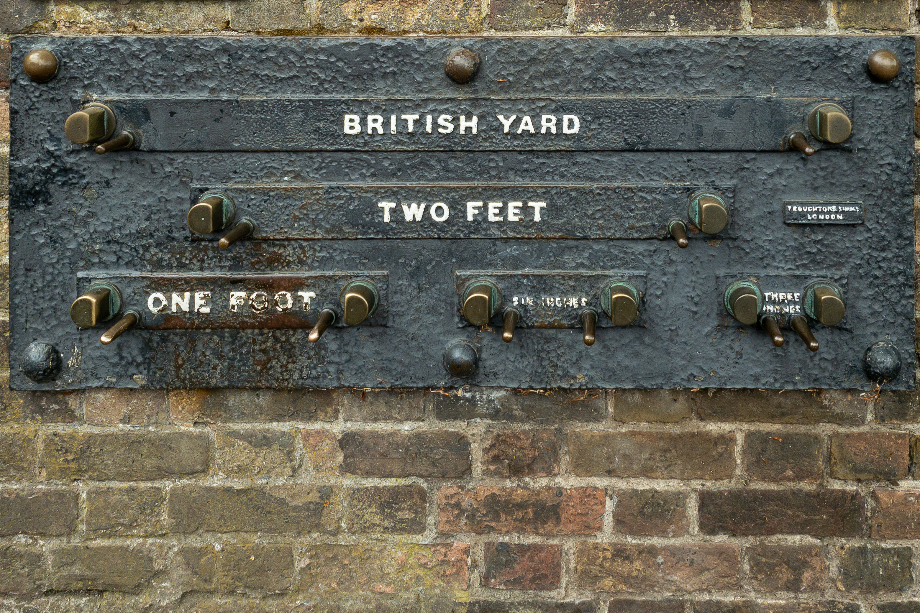 Beside the entrance to the Greenwich Royal Observatory is a set of imperial length gauges by instrument makers Troughton & Simms.